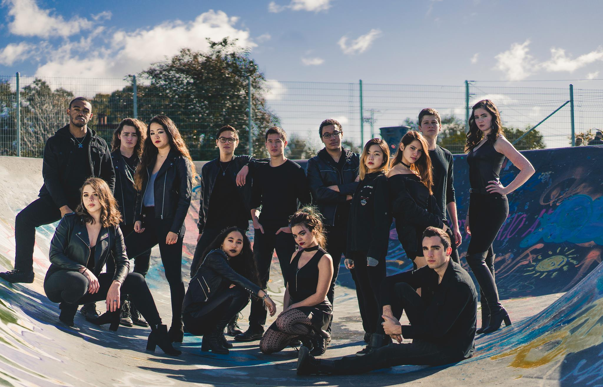 The Stanford Harmonics a cappella group at a skatepark.